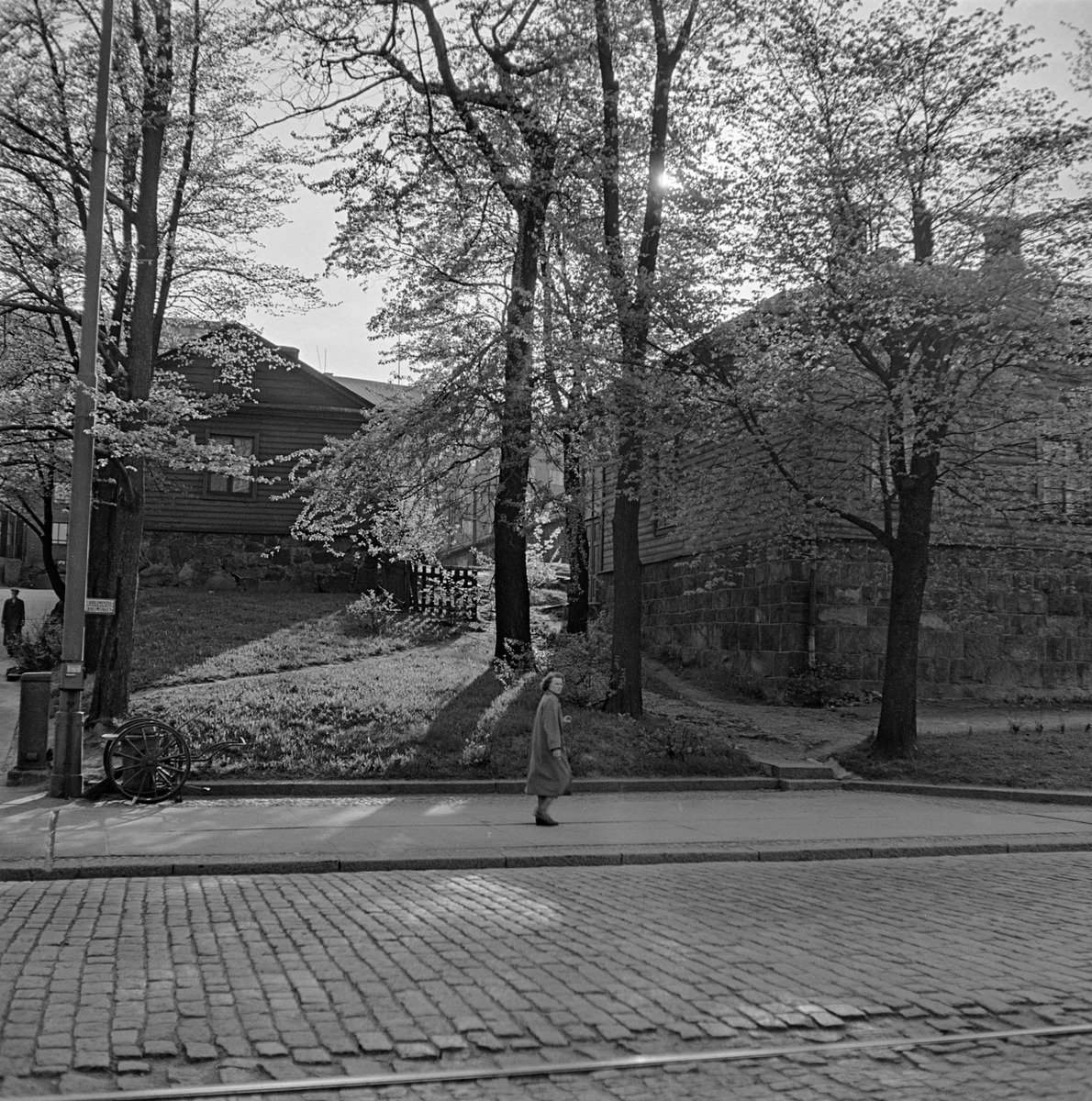 Old barracks of "Sykistöpiha" (Artillery Courtyards) at Töölö, Finland